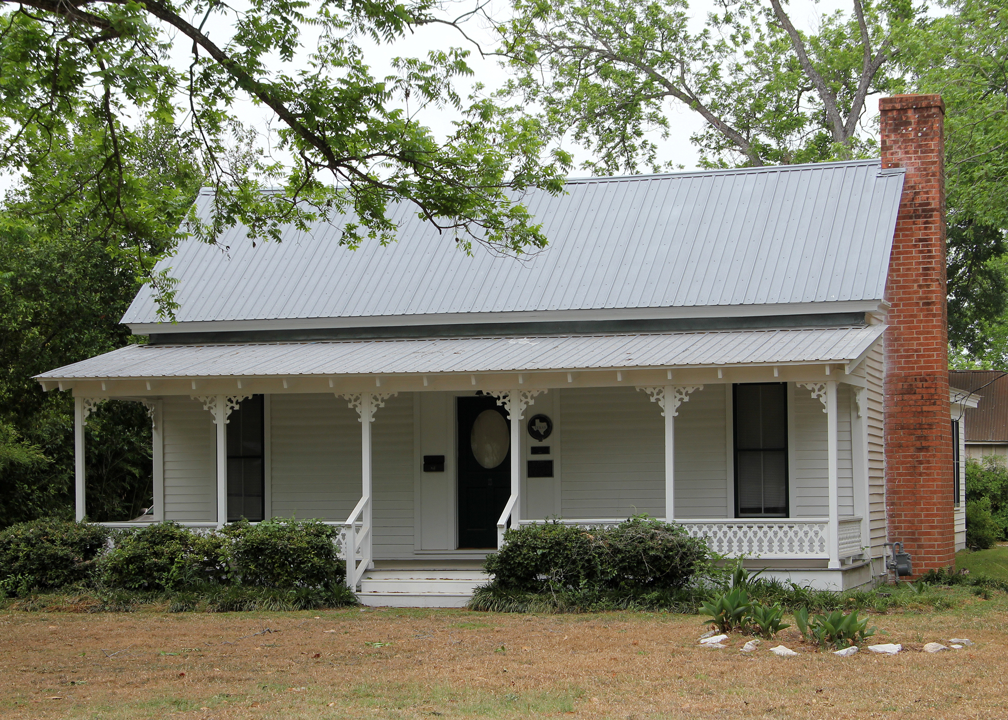 The Jenkins House (Bastrop, Texas), United States was built in 1880. The house was designated a Recorded Texas Historic Landmark in 1964 and listed on the National Register of historic places on December 22, 1978.